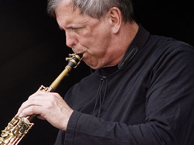 Dick Oats performing in Aarhus Denmark 2012